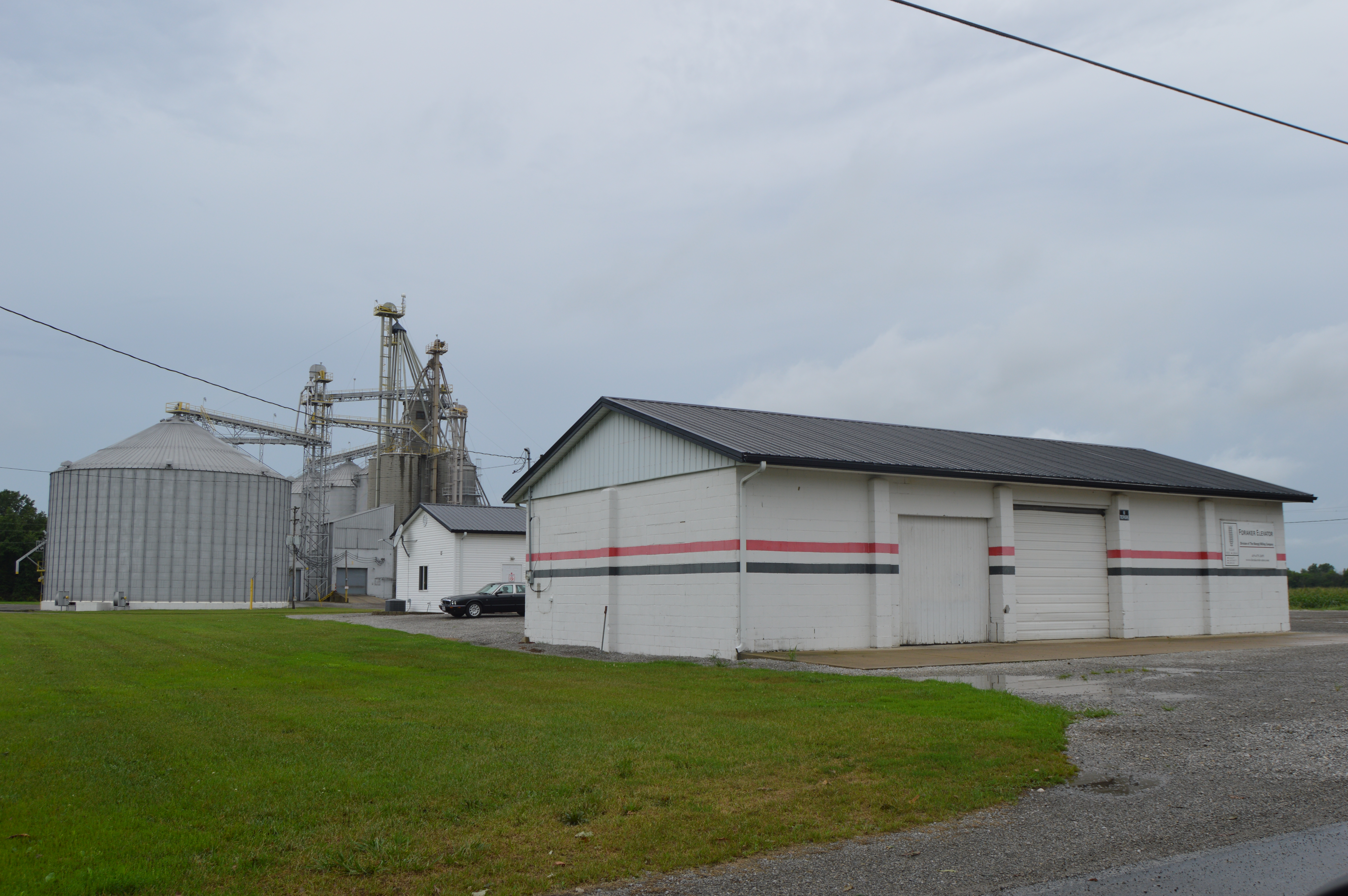 Overview from the east of the Foraker Elevator, located at 9603 County Road 89 at Foraker in the northwestern corner of Lynn Township, Hardin County, Ohio, United States.